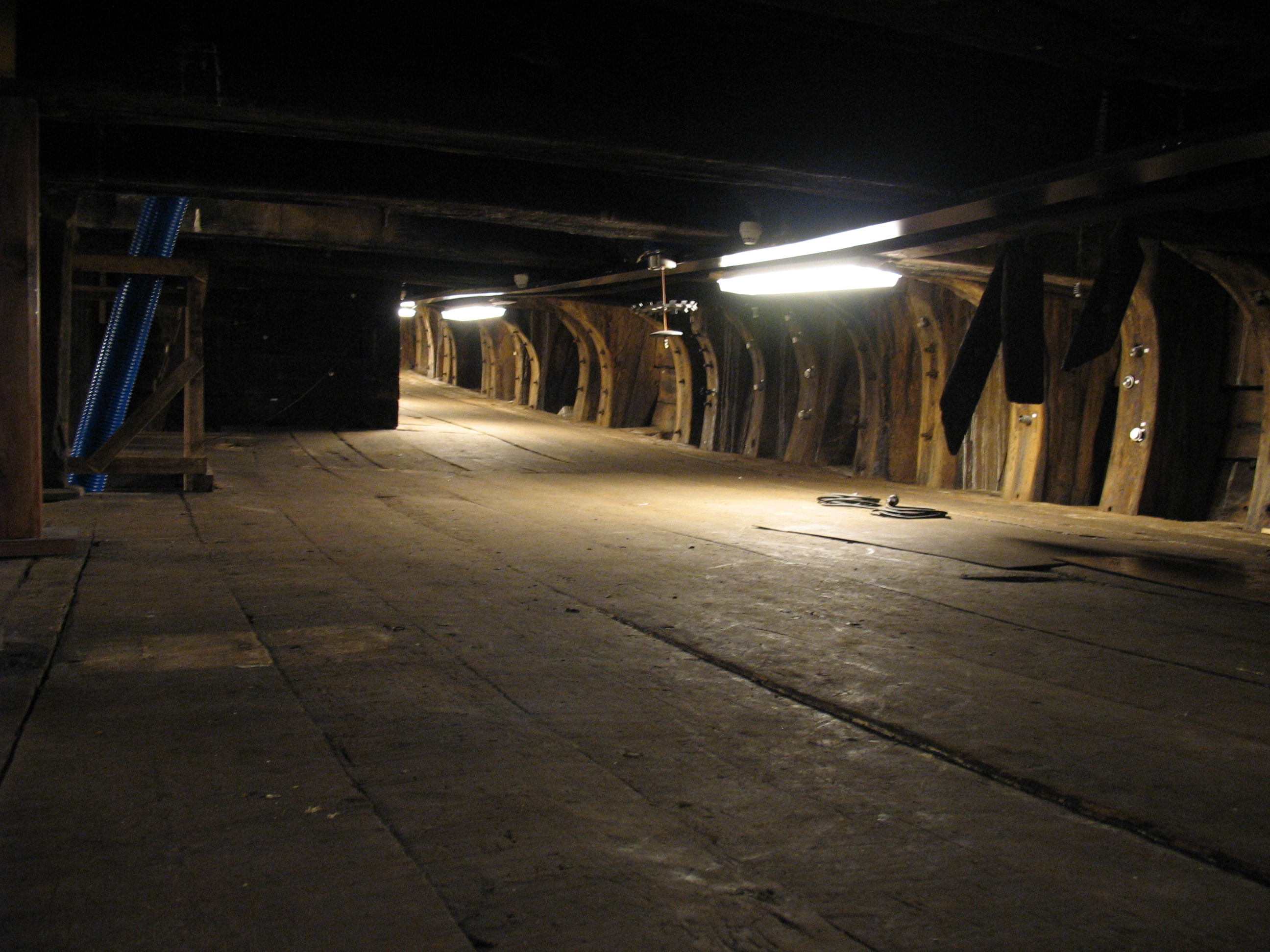 The orlop of the warship Vasa looking aft.